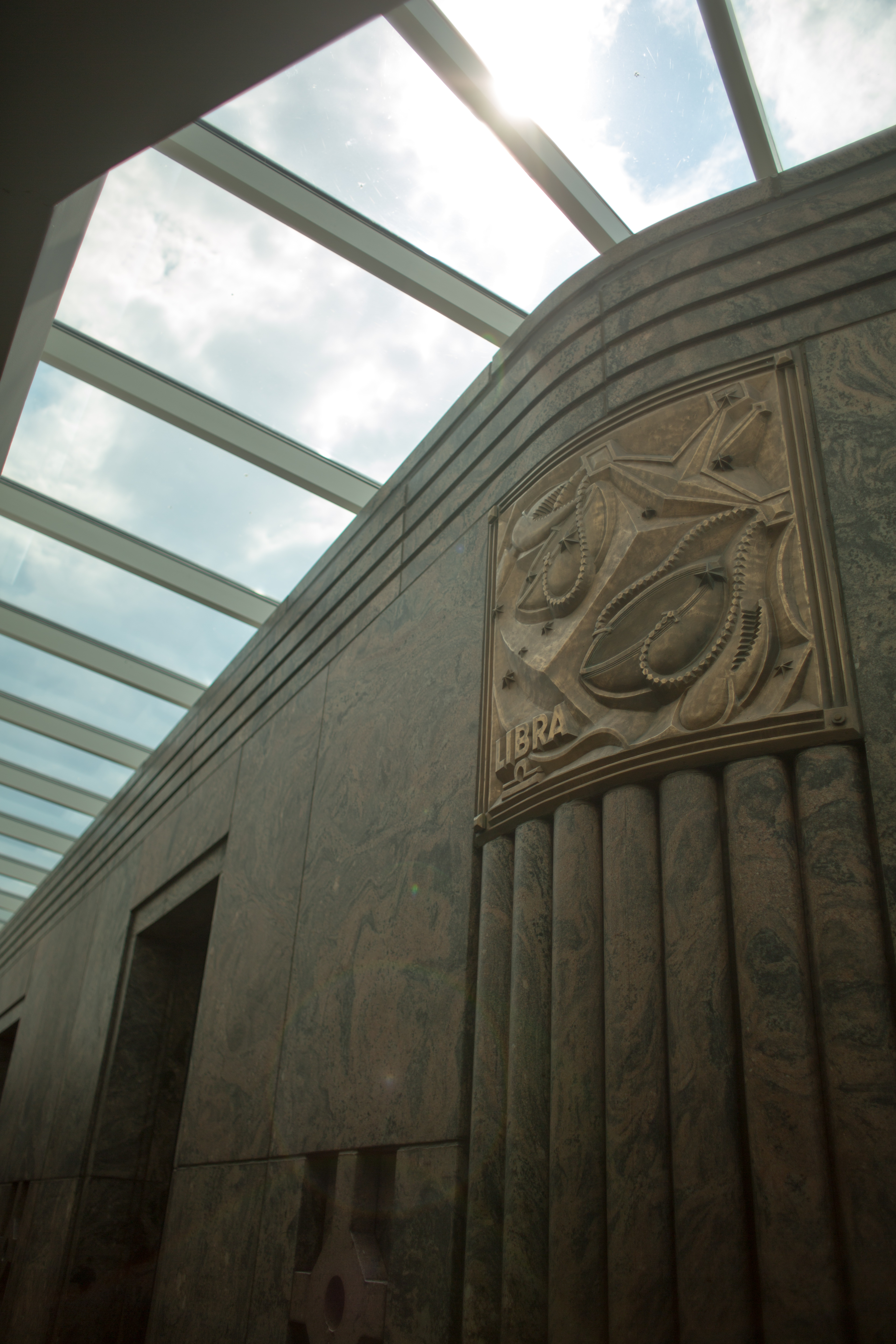 Adler Planetarium original building meets new building Chicago 2015-105